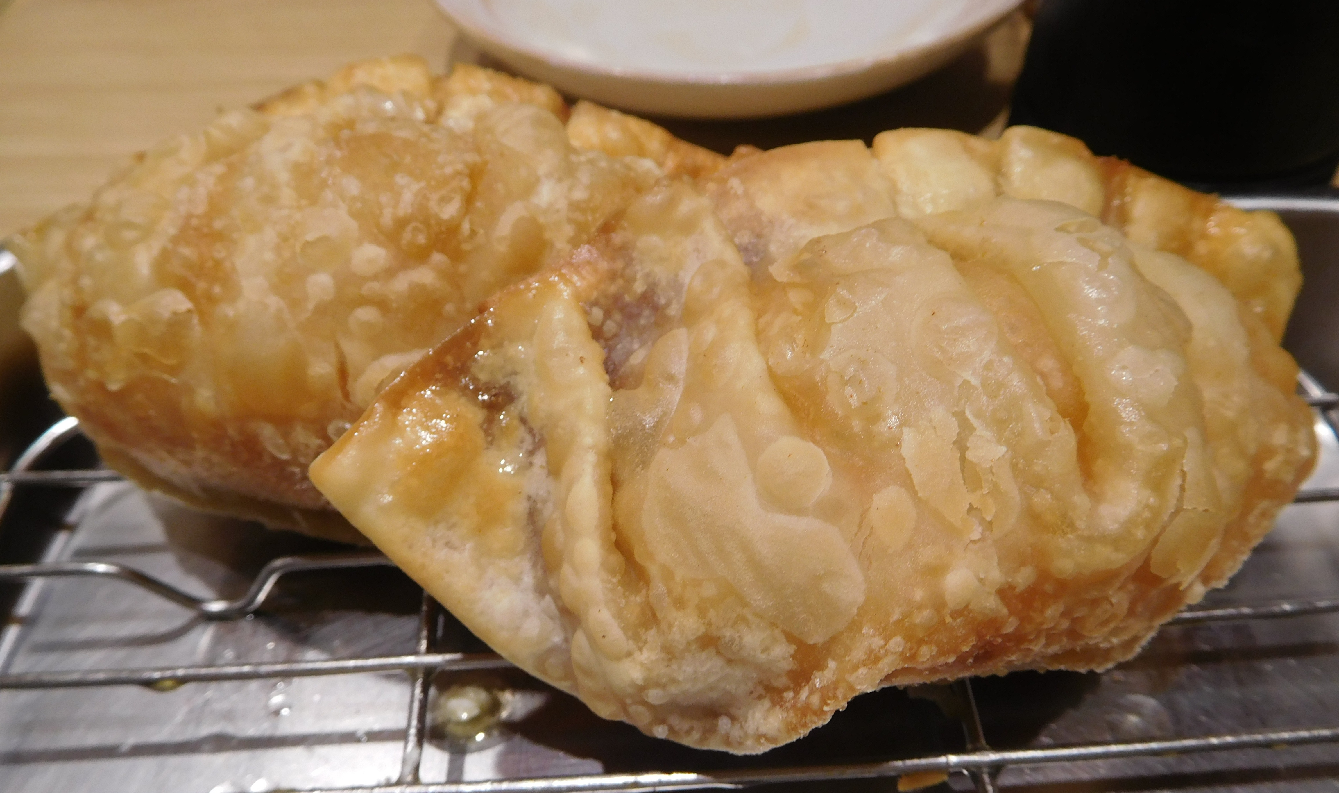 These are Tsu Jiaozi cooked by Tenhana, which is located in Tsu station building, Tsu, Mie, Japan.